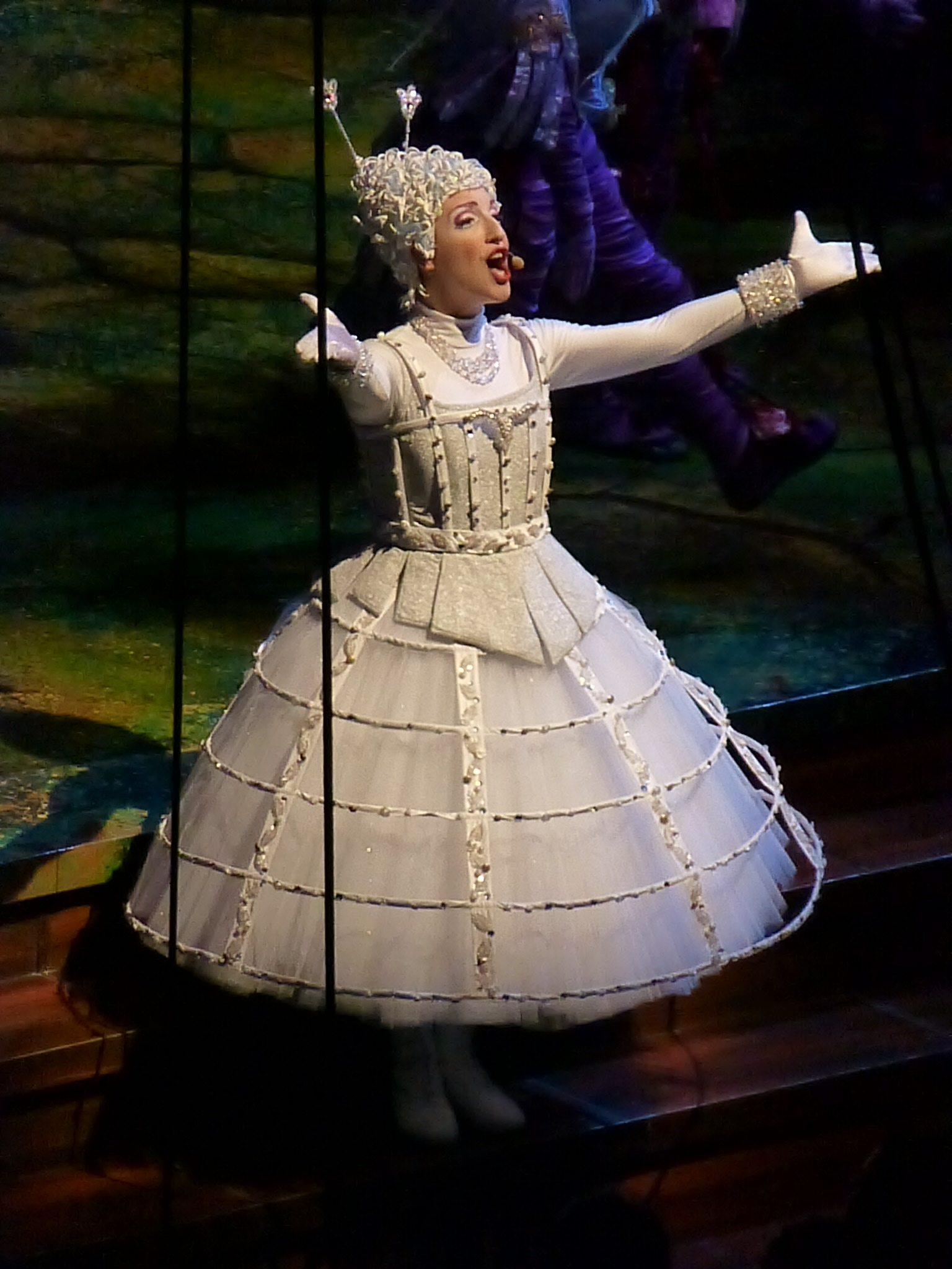 Cirque du Soleil 2012 Alegría, Istanbul, Turkey